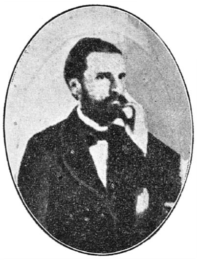 Photograph of the Moldavian physician Constantin (Costache) Vârnav, brother of the revolutionary Scarlat Vârnav and son-in-law of the Wallachian Prince Gheorghe Bibescu.